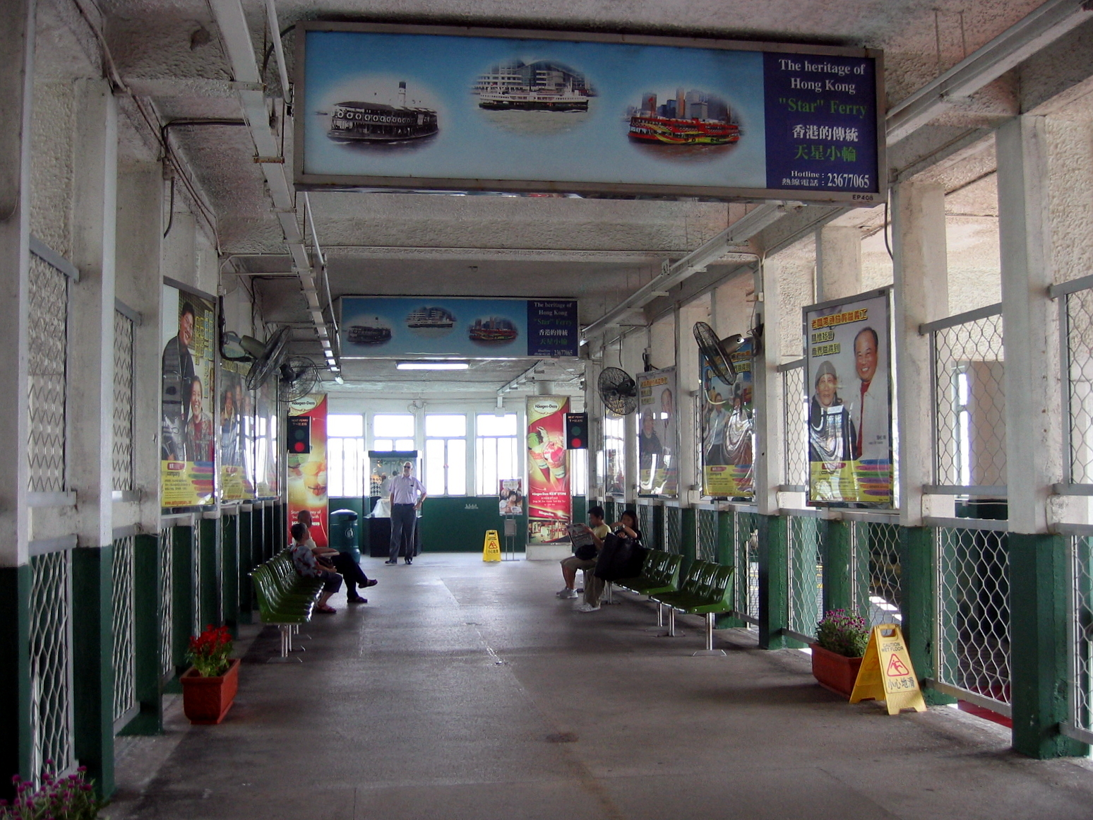 Edinburgh Place Ferry Pier Interior Access 愛丁堡廣場碼頭